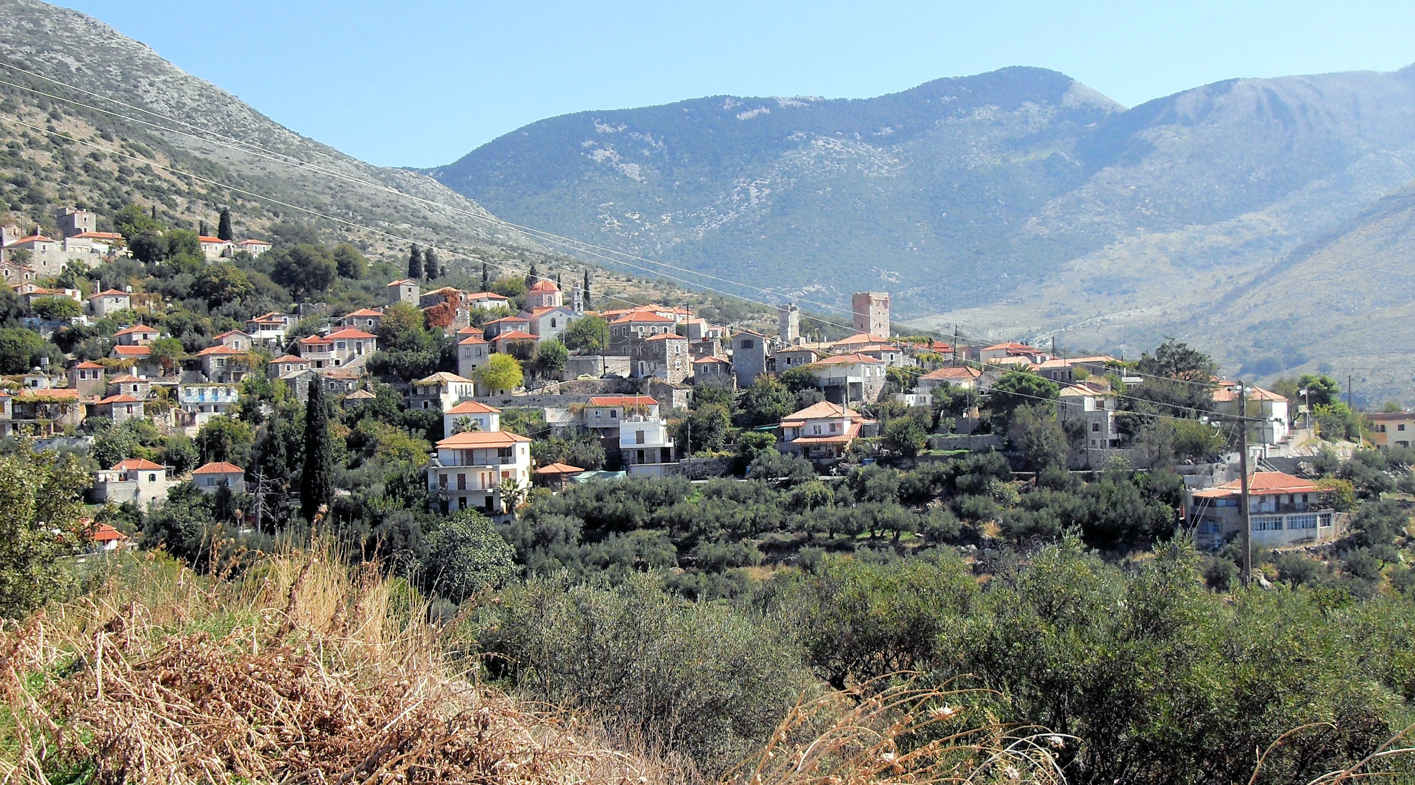 Village of Lagkada, community of West Mani